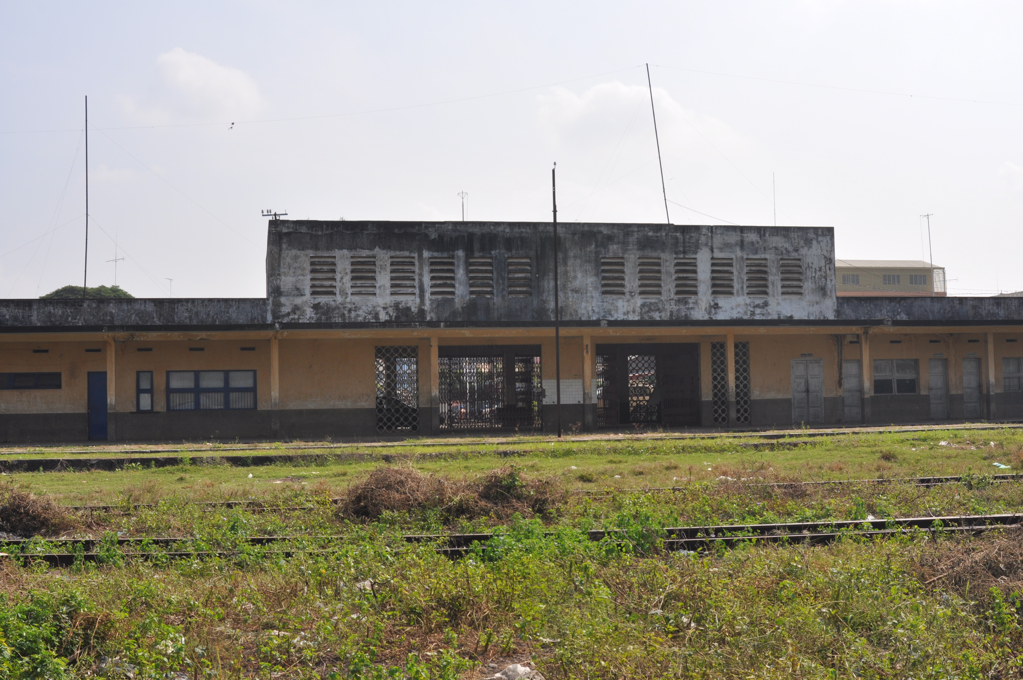 Old railway and train station in Battambang, Cambodia, Dec 2010. The railway has deteriorated over many years because of war, neglect and asset stripping. Photo by Michael Wilson/DFAT